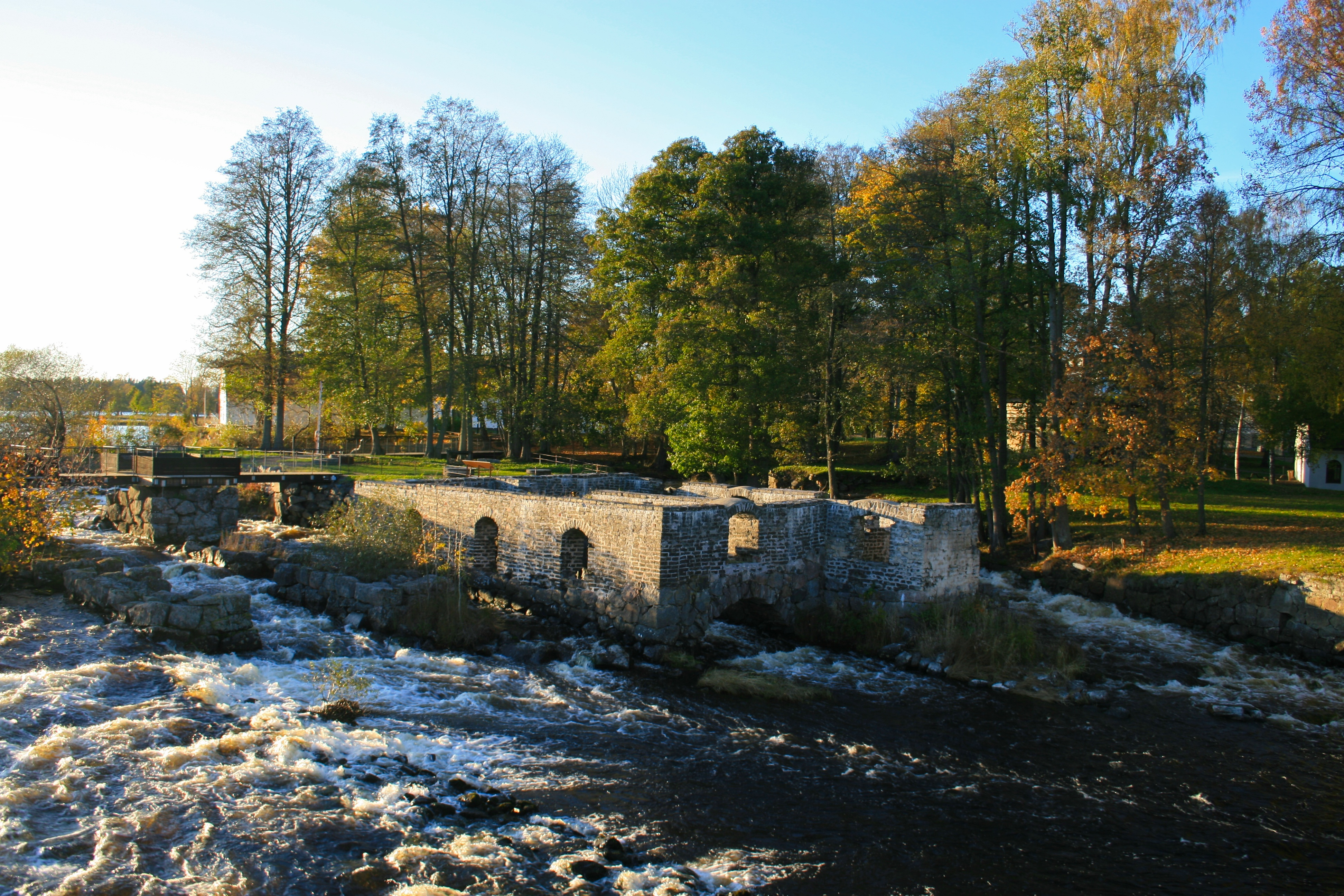 Old sawmill close to Gysinge, Färnebofjärden national park, Sandviken municipality, Gästrikland, Gävleborg county, Sweden.